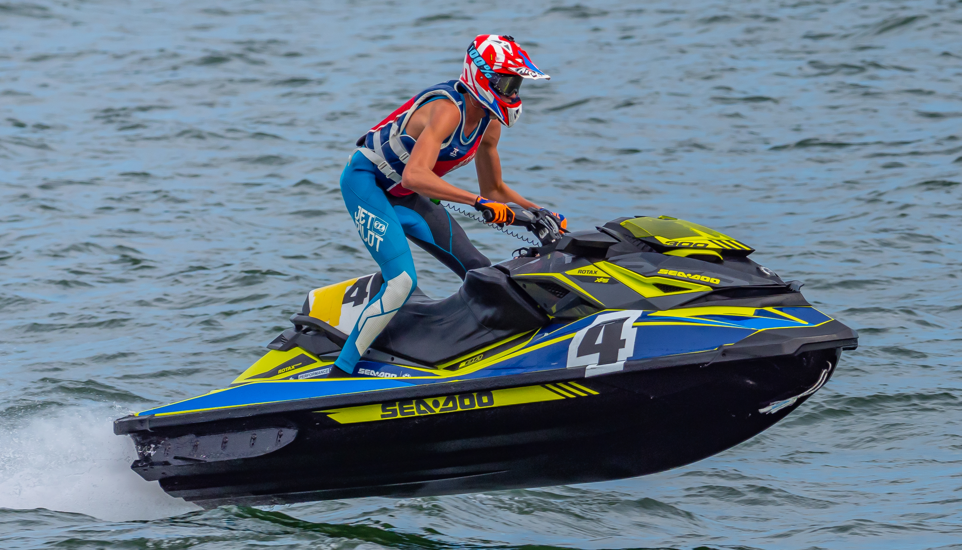 European Championship & Nynäs Offshore Race 2019, Nynäshamn, Sweden